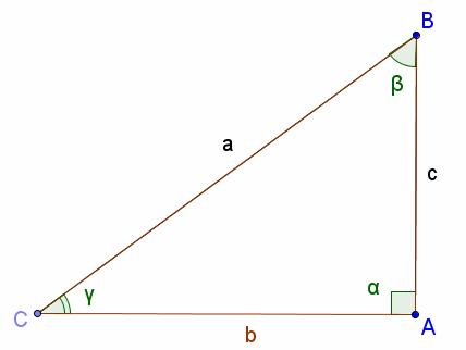 right triangle